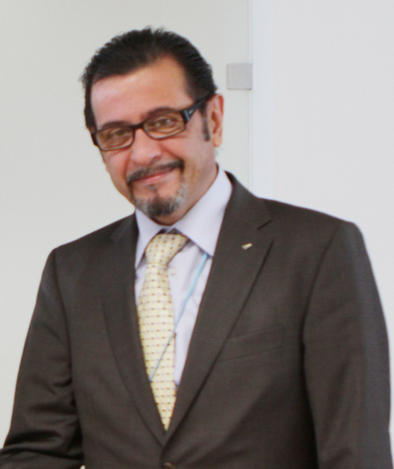 The Permanent Representative of the State of Palestine, Salah Abdel-Shafi, paid a courtesy visit to the DG on October 7, 2013